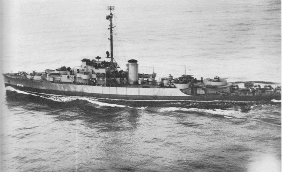 USS Gloucester (PF-22), National Archives photo from Allied Escort Ships of World War II by Peter Elliott